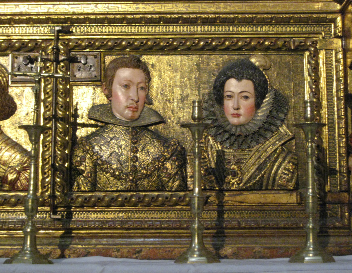 Reliquary altar, right. Sculptor Alonso de Mena 1632. Capilla Real, Granada. Panel with Carlos V and Philip IV and Isabella of Bourbon